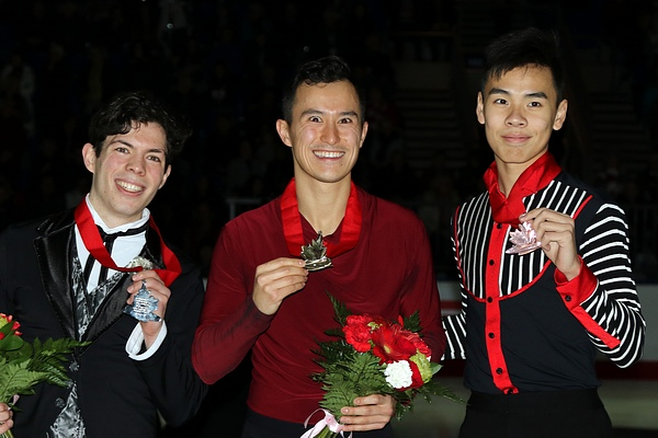 Winners of the 2018 Canadian National Figure Skating Championships, Senior men